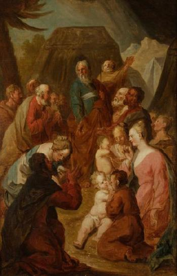 Harvest of the Manna